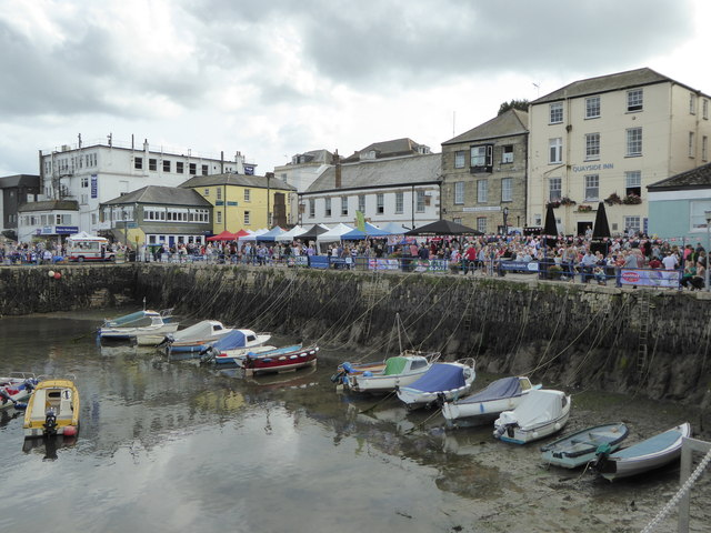 Falmouth Harbour and Customs House Quay, Cornwall, England